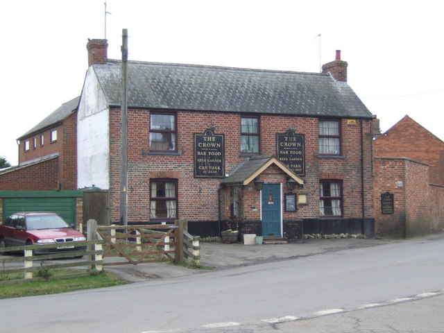 The Crown public house, Twyford, Buckinghamshire.